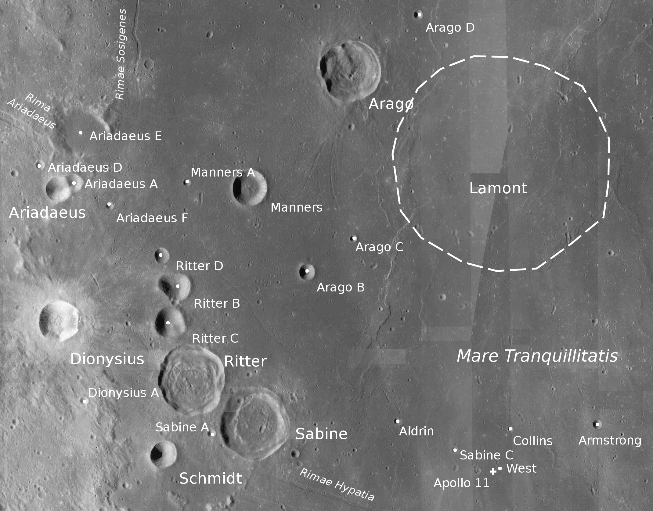 Craters Arago, Manners, Ritter, Sabine and Dionysius with Lamont structure and Apollo 11 landing site (detail of LRO - WAC global moon mosaic; Mercator projection)